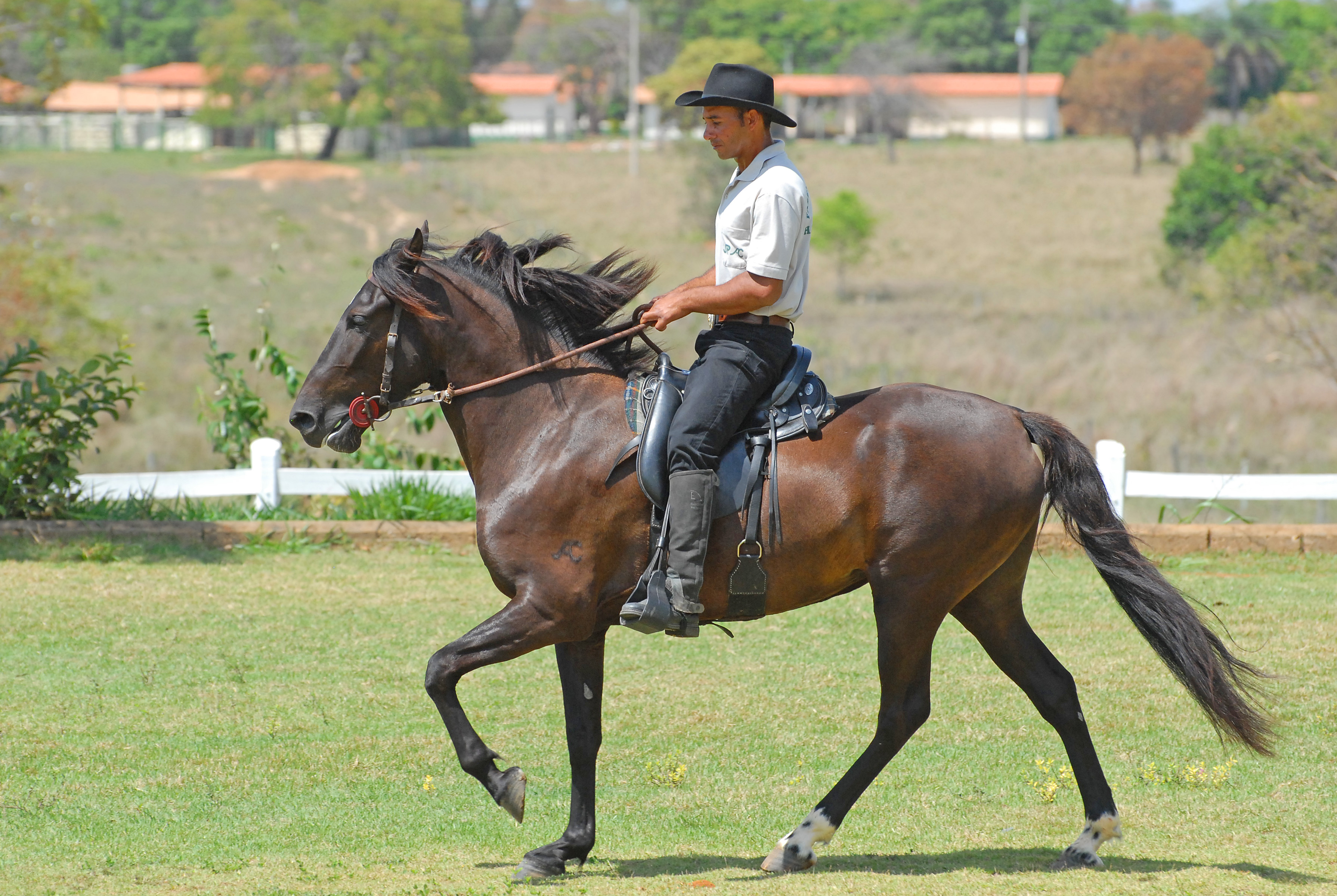 Olímpia de Clarion, Marcha Picada, triple support, dauhter of brazilian breeding stallion Meirelles Jagunço; Haras Clarion, Pirapora, Minas Gerais